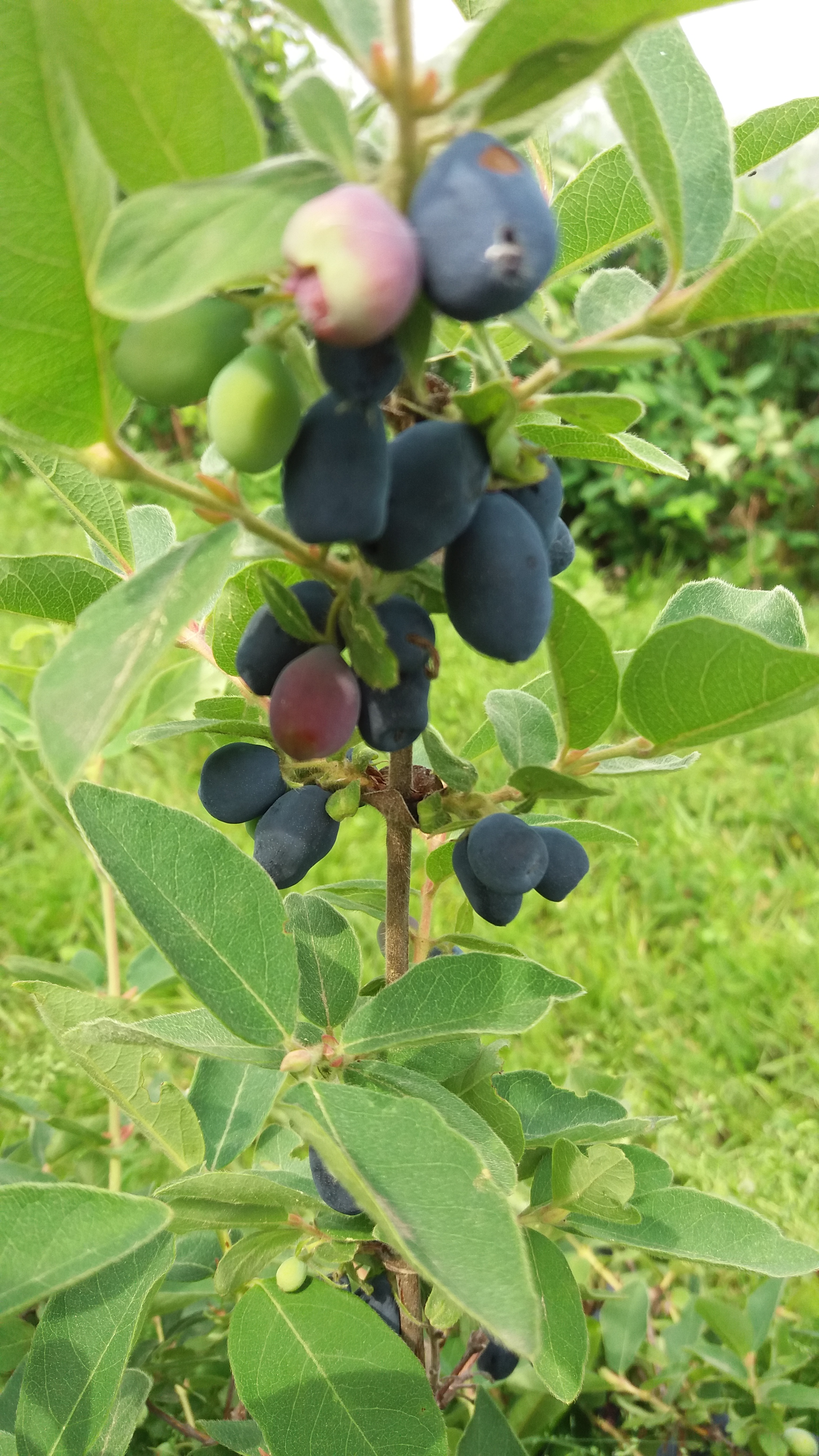 Haskap berries hanging in a plant